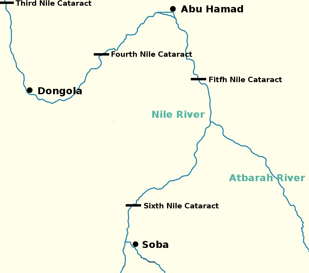 The region of al-Abwab is generally assumed to have bordered Makuria somewhere between Abu Hamad and Meroe (between the fifth and sixth Nile cataract)